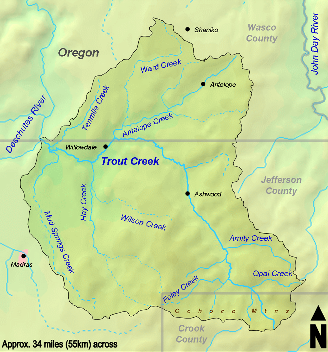 A map of the Trout Creek watershed — tributary of the Columbia River, Oregon.